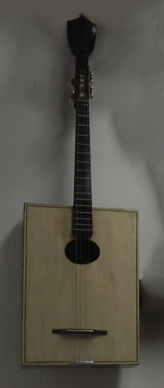 Modern version of Đàn tứ, a traditional Vietnamese stringed musical instrument.